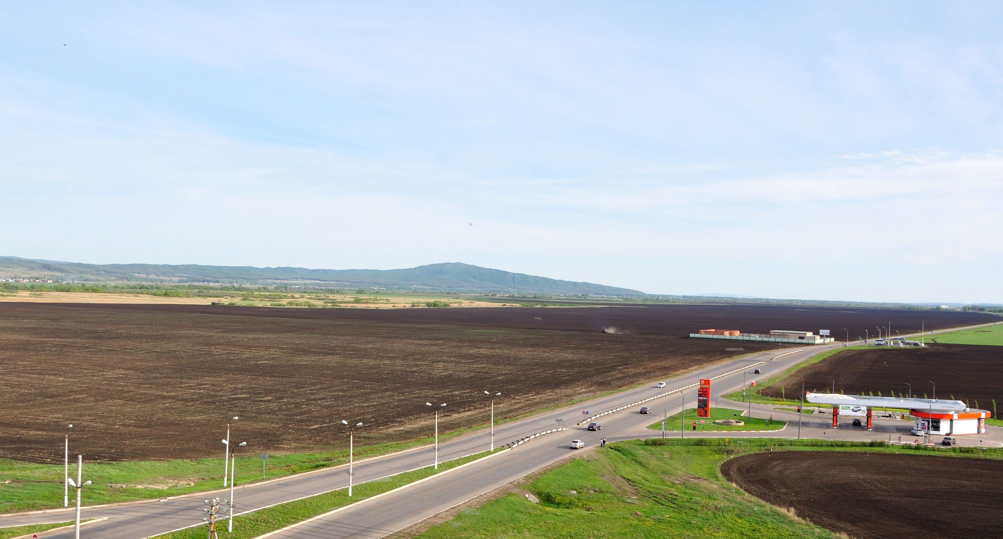 Zirgantau